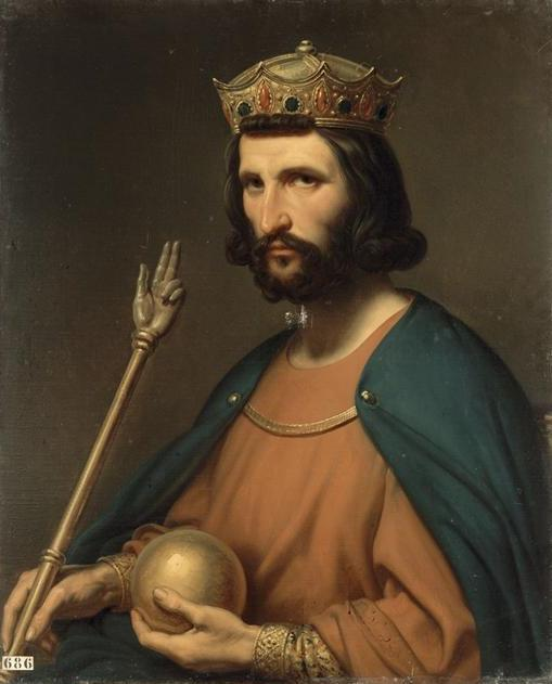 Portraits of Kings of France is a serie of portraits commissioned between 1837 and 1838 by Louis Philippe I and painted by various artists for the Musée historique de Versailles.